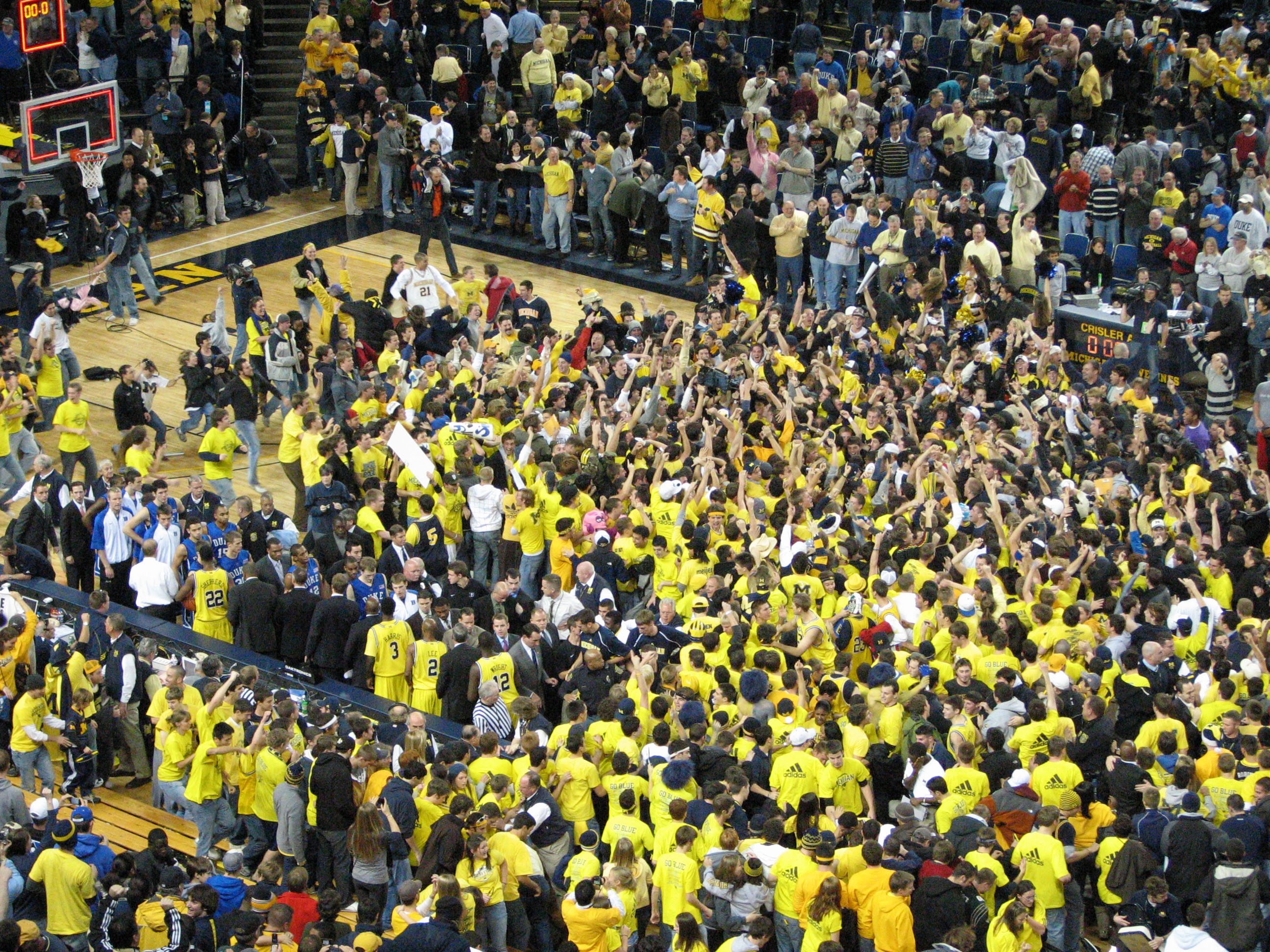 Crisler Arena fans after a Michigan Wolverines men's basketball victory over Duke Blue Devils men's basketball.